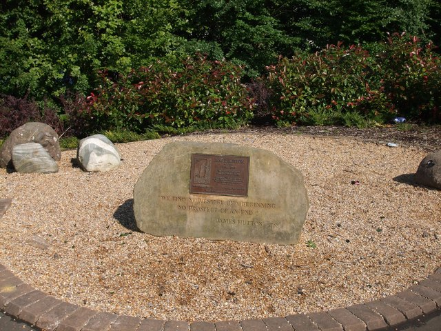 Memorial to James Hutton, (1726 - 1797) The Geologist James Hutton was born in a house on this site. He is known as the ,"Father of Modern Geology" and wrote of his theories after observing the horizontal sedimentary rocks overlying the vertical schists at Siccar Point on the Berwickshire coast. An area known as "Hutton's Unconformity". There is also a section of the nearby Salisbury Crags known as "Hutton's section". He wrote his seminal work, "A Theory of the Earth" which forms the basis of modern geology in this house in 1785. -"We find no vestige of a beginning o prospect of an end" - James Hutton